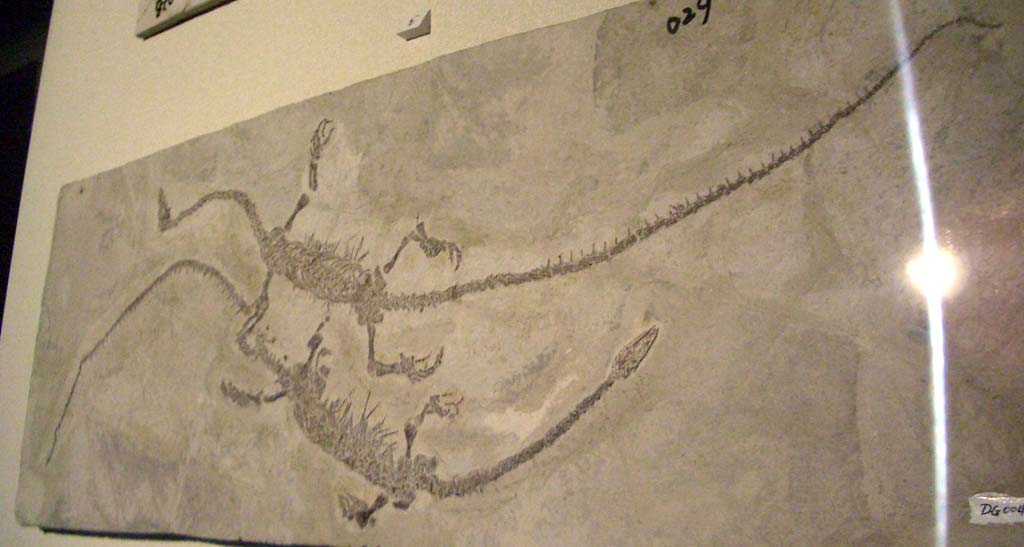 Hyphalosaurus baitaigouensis fossil displayed in Hong Kong Science Museum